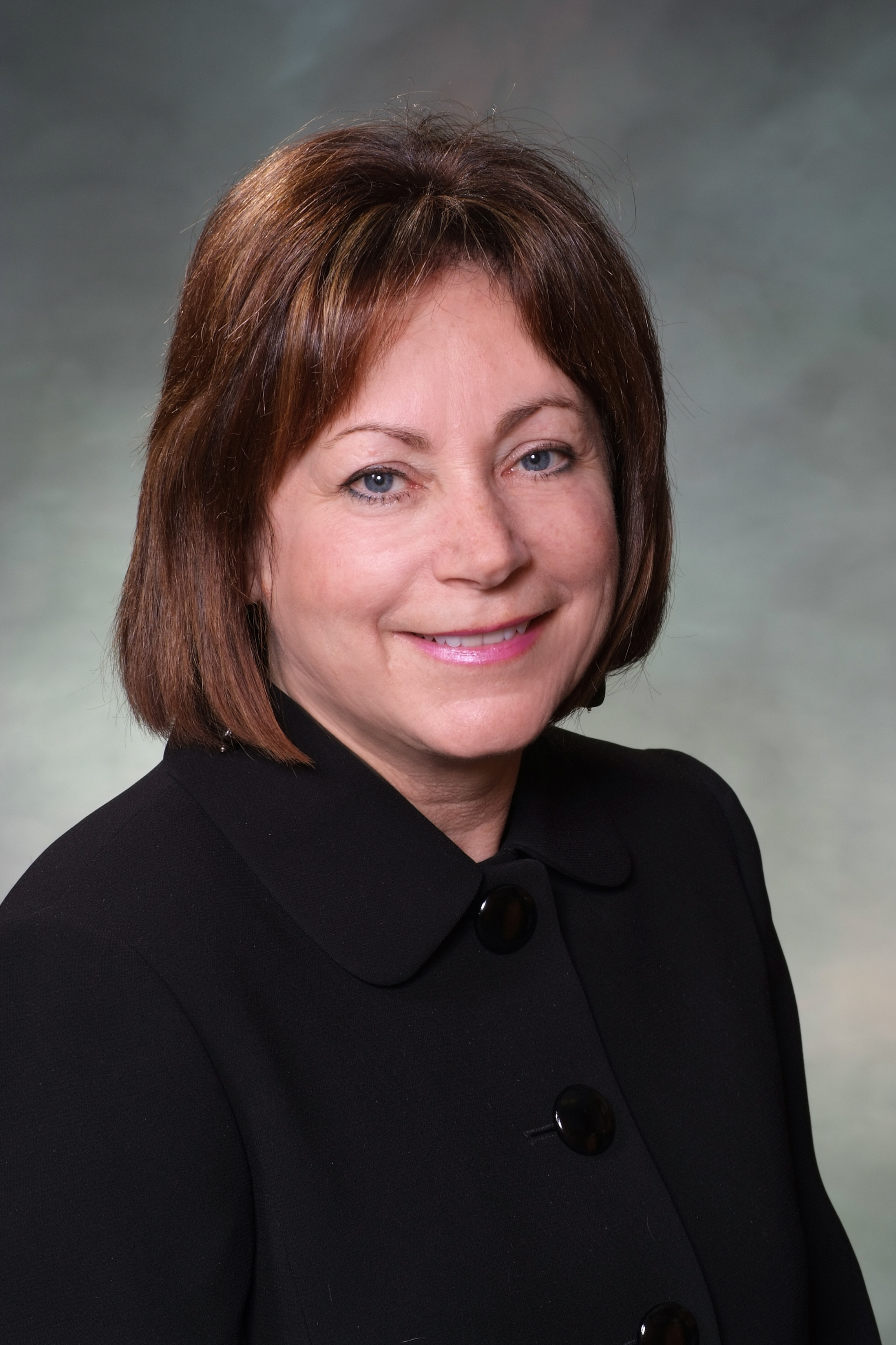 Photo of Colorado Representative Dianne Primavera